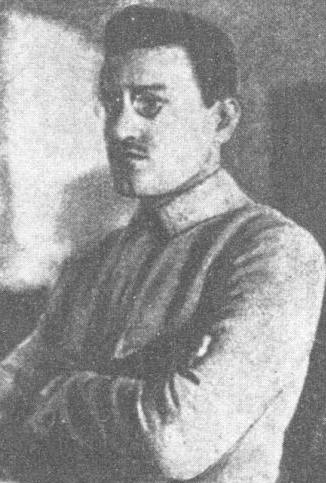 Ivan Chmola - founder of "Plast"